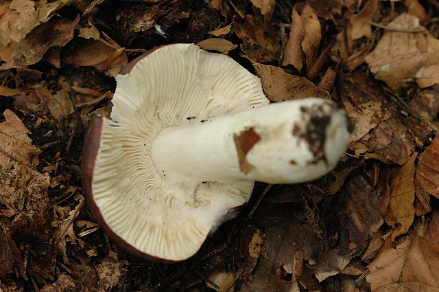 Russula spec. (maybe Russula brunneoviolacea) from Commanster, Belgium. The determination of the species shown in this picture has been verified.